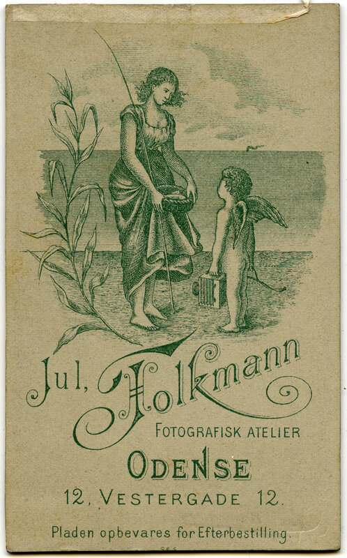 Advert for Julius Golkmann's photographic studio at Vestergade 12 in Odense, Denmark